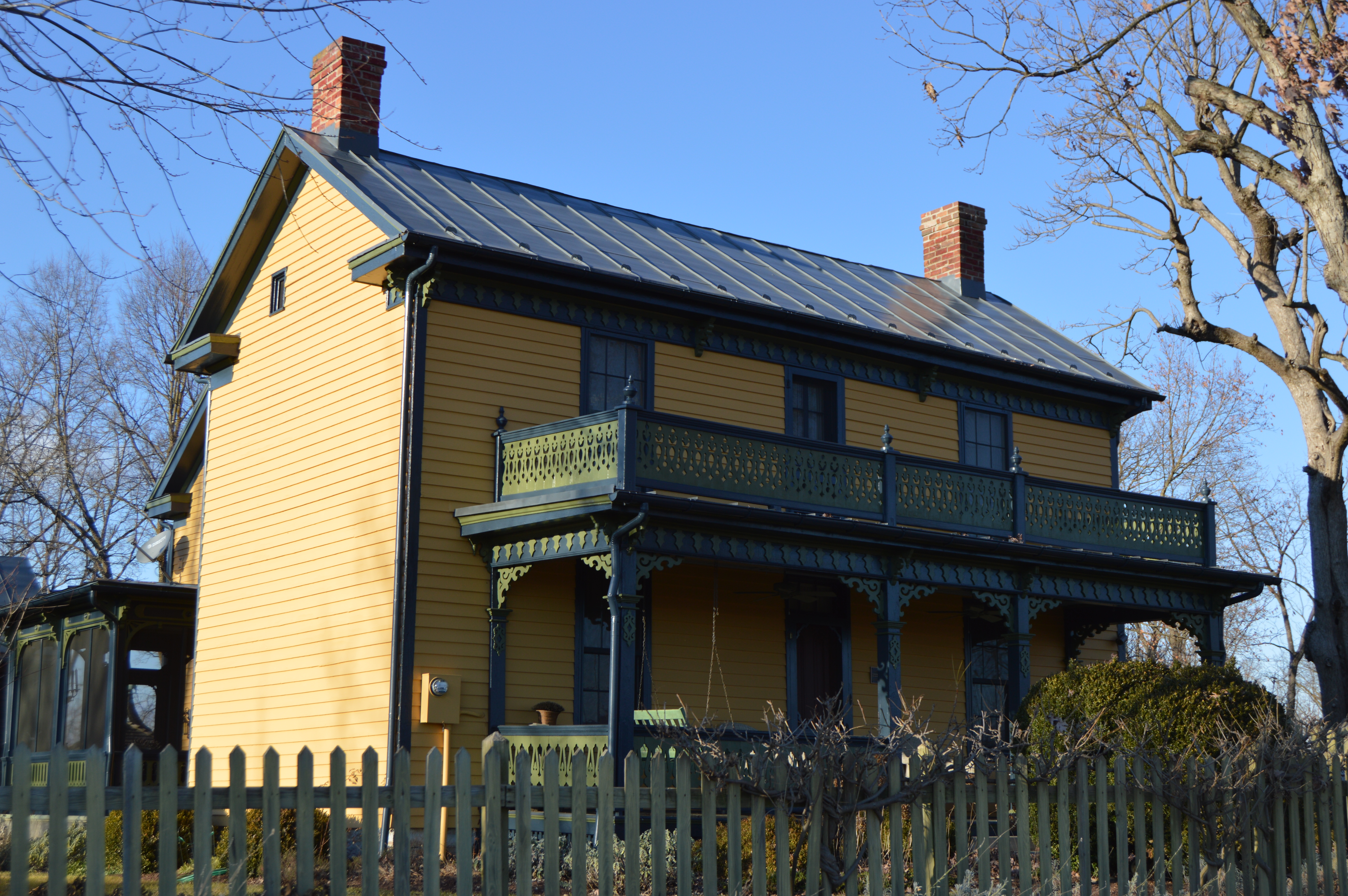 Front and southwestern side of the Bauserman Farmhouse, located at 10107 S. Middle Road north of Mount Jackson in Shenandoah County, Virginia, United States. Built in 1860, it is listed on the National Register of Historic Places.